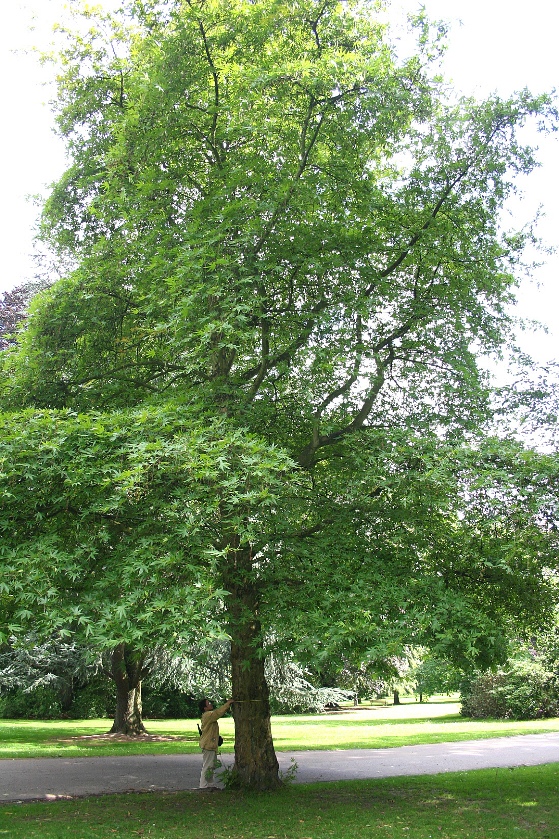 Oriental plane cv. ‘Digitata’